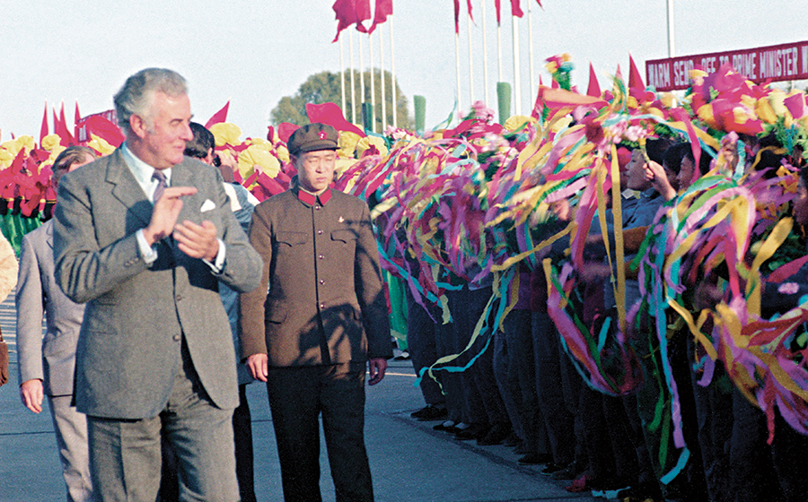 Gough Whitlam during his visit to China in 1973.